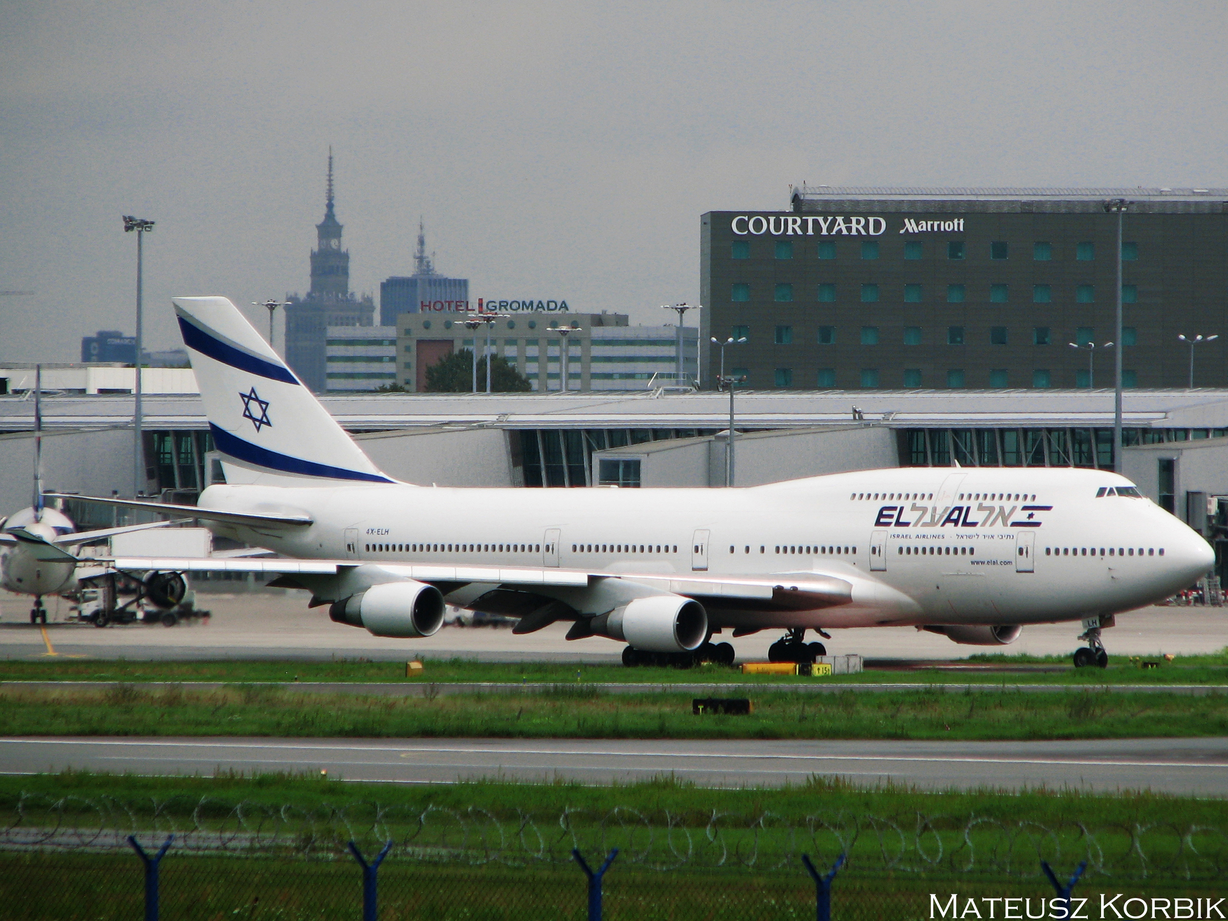 Visit of Jumbo Jet in Warsaw (August 1st 2011)